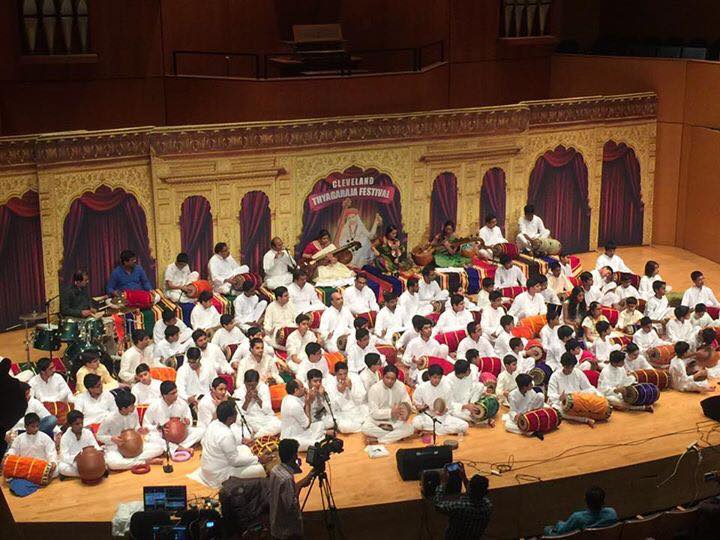 T S Nandakumar Sir Conducting a percussion ensemble with his own students in cleveland.